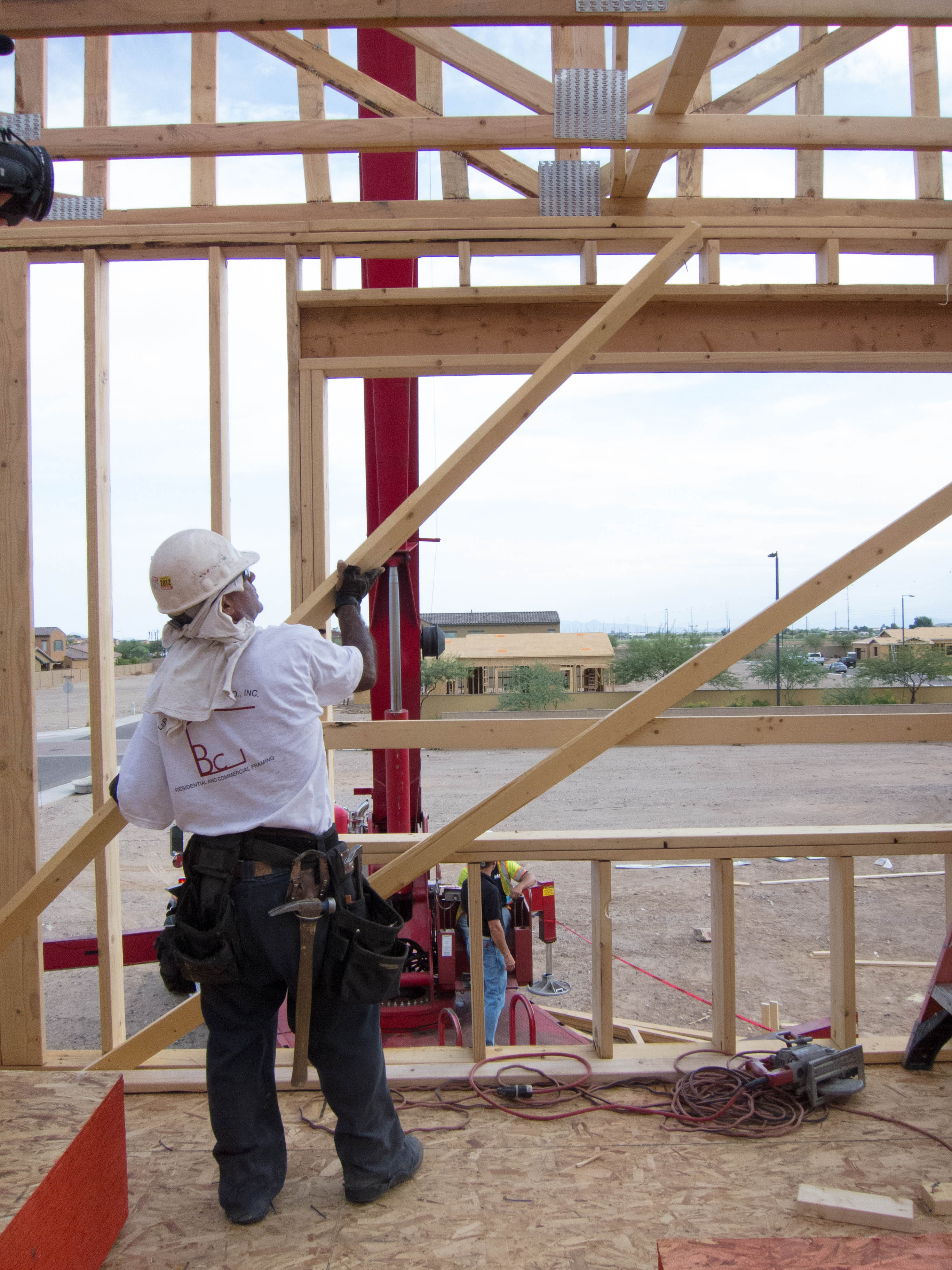 A residential construction worker